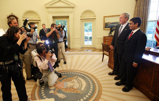 George W. Bush stands with Sameer Mishra, 14, of Lafayette, Indiana, during his visit Wednesday, Aug. 13, 2008, to the Oval Office of the White House. The teen was named the 2008 Scripps National Spelling Bee Champion.